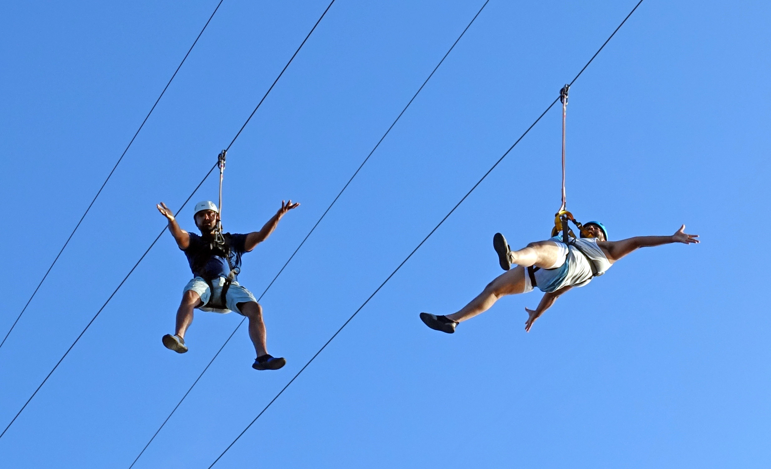 PierZip zip wire line in Bournemouth. The line goes from Bournemouth Pier towards the beach.